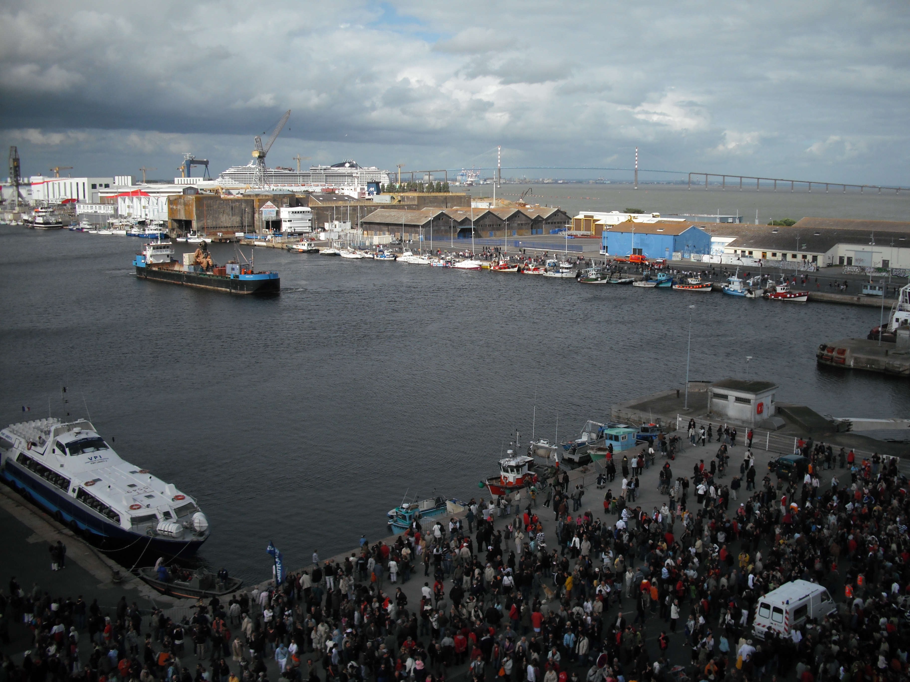 La Petite Géante at Saint-Nazaire